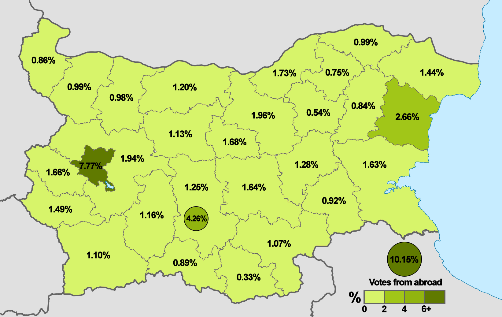 2017 Bulgarian Parliamentary elections - Yes, Bulgaria! results by province Source: Central Electoral Commission